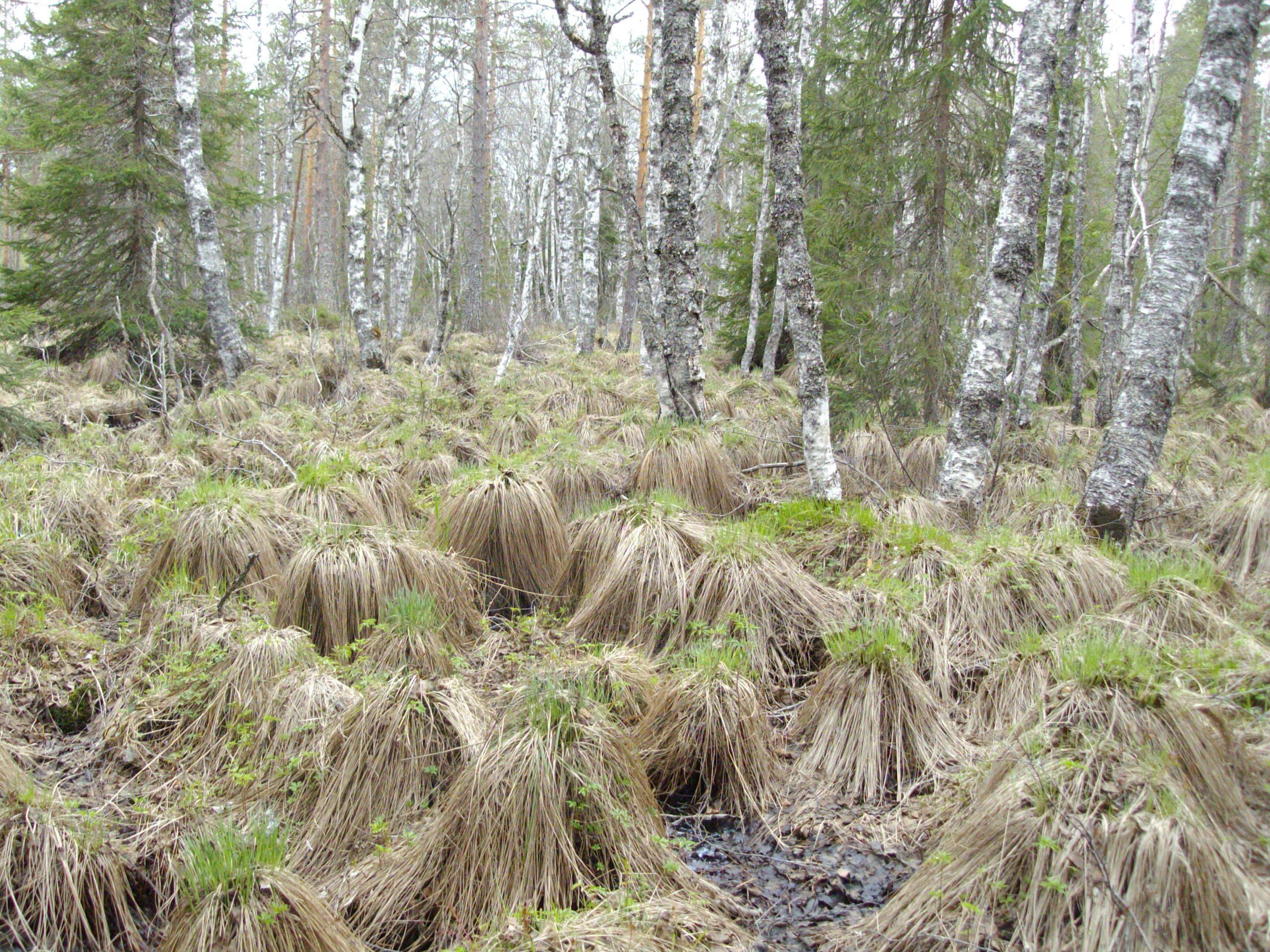 Typical rustic bunting habitat in Hedmark, Norway (flood plain with ground water influence)